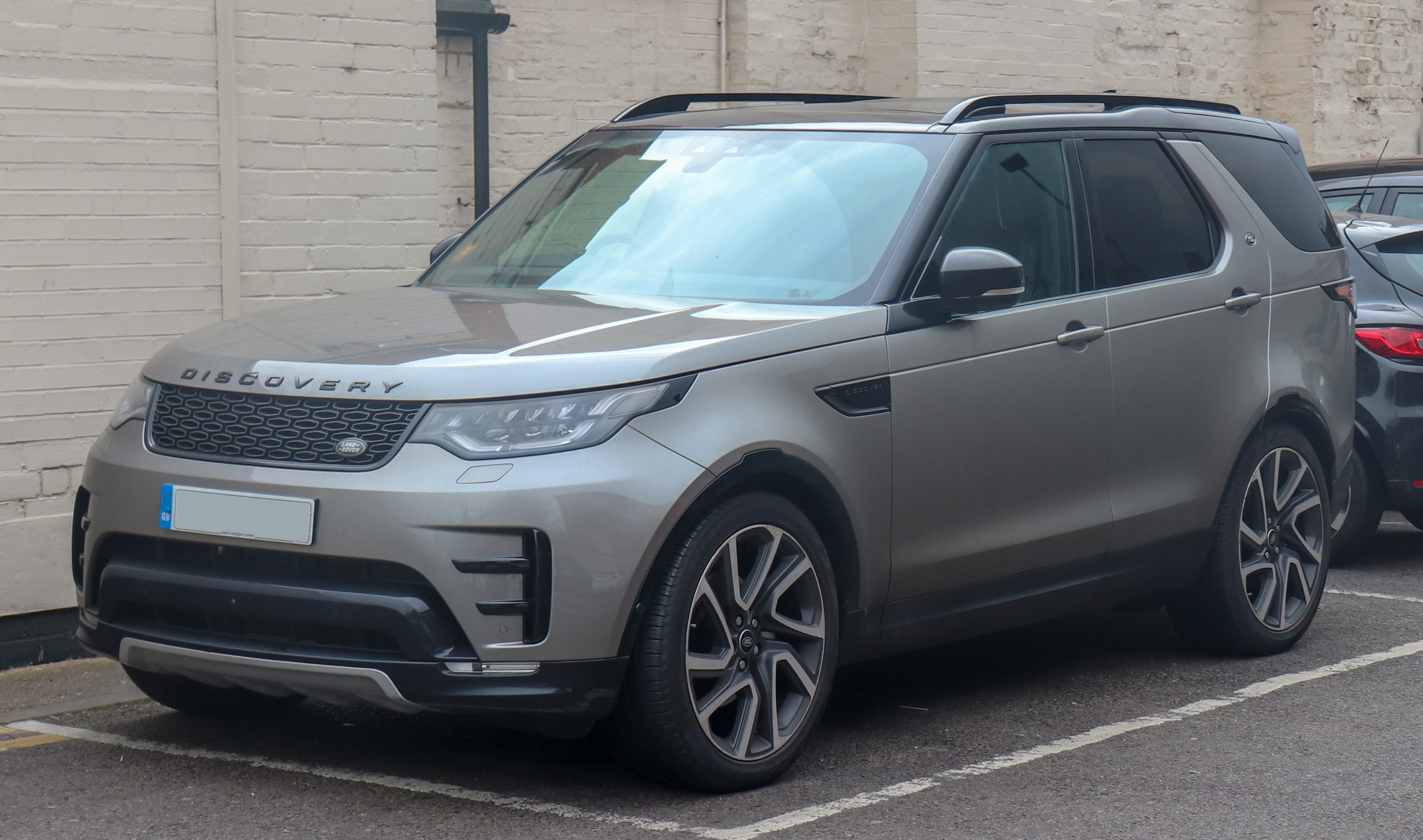 2018 Land Rover Discovery Luxury HSE TD6 3.0 Front Taken in Leamington Spa